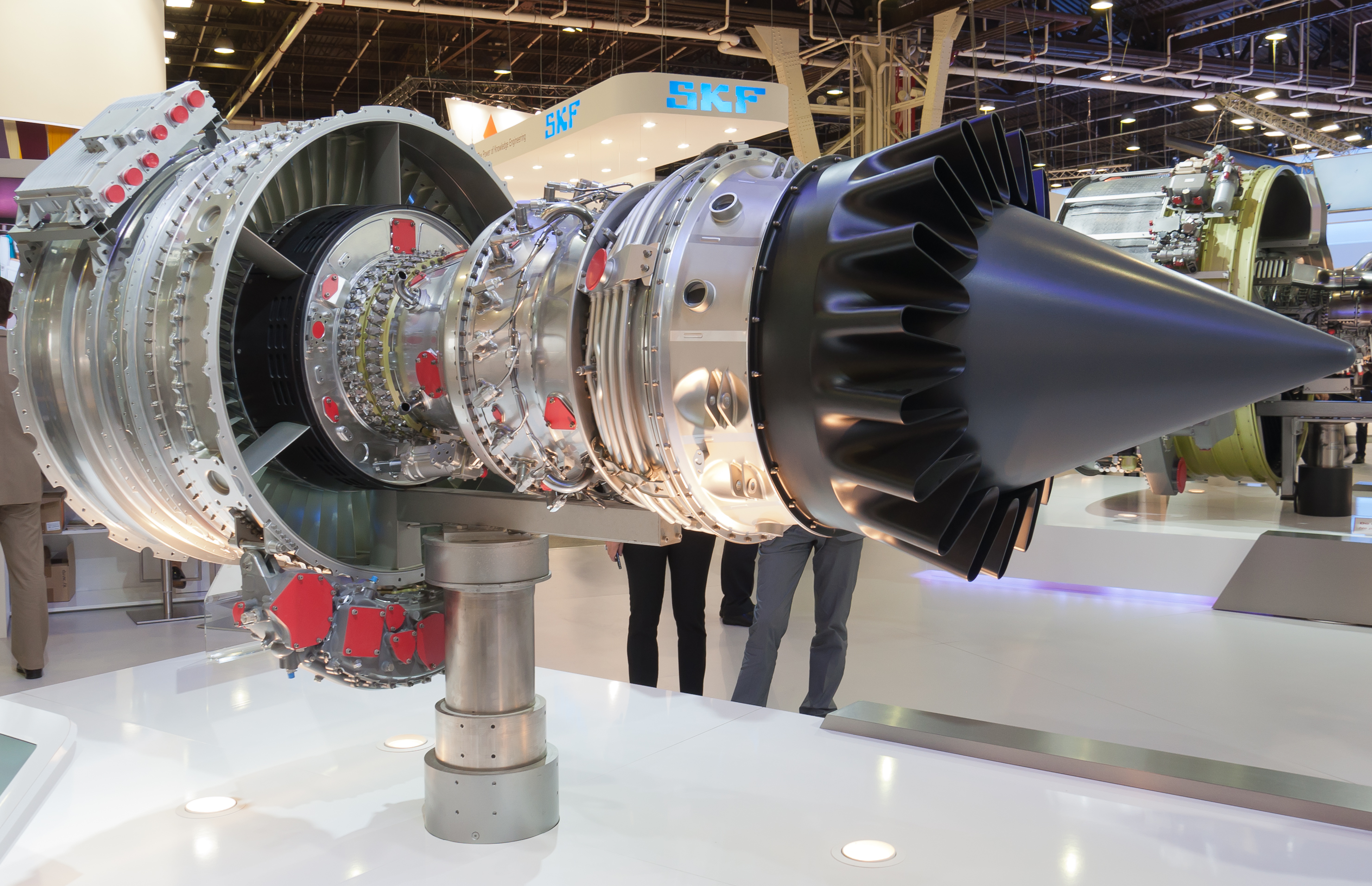 Snecma Silvercrest turbofan engine (chosen for Cessna Citation Longitude, 9,500-12,000 pounds of thrust according to Snecma).